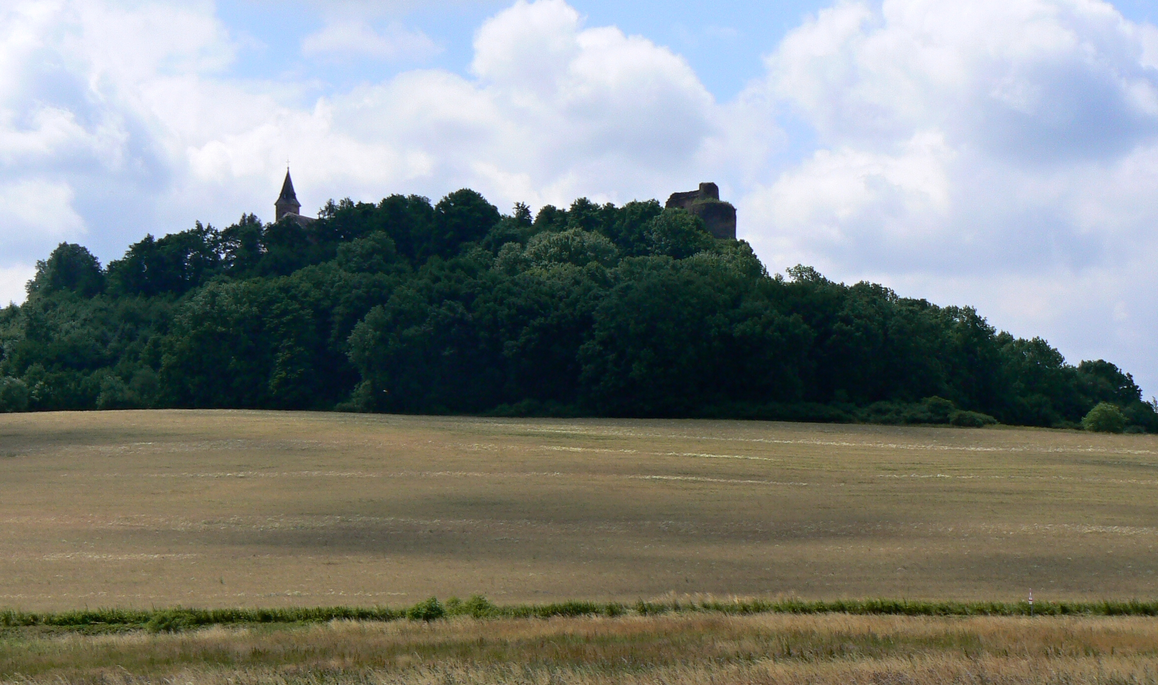 Hill with ruins of the castle and church spans to the natural monument Krasíkov, near Kokašice in Tachov District